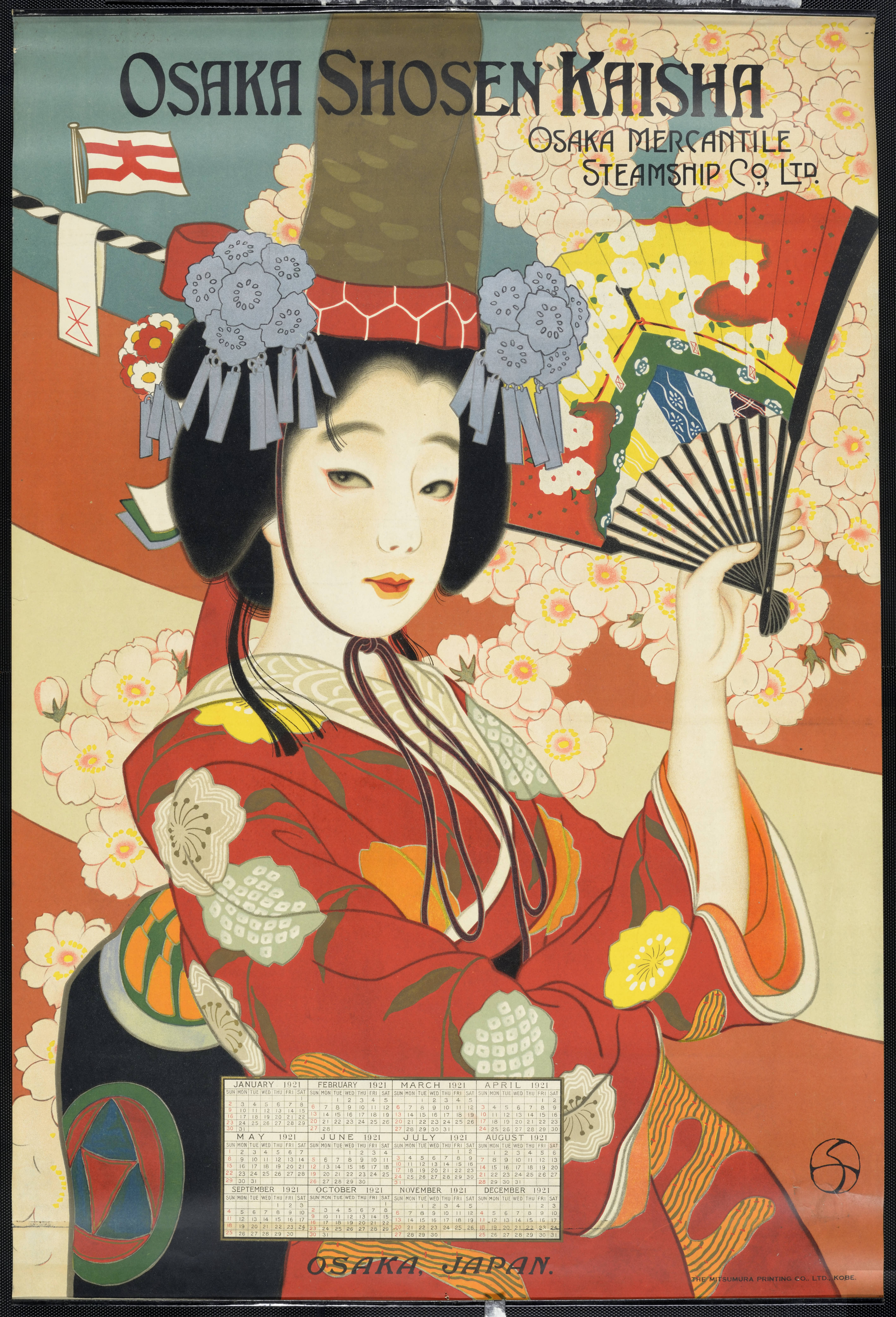 Osaka Shosen Kaisha = Osaka Mercantile Steamship Co., Ltd. [Woman in red kimono] Osaka Mercantile Steamship Co. Ltd. A woman in red kimono holding a fan. Marked with the company's symbol, a flag with a character "a$?SS." Geographic Subject (Continent): Asia Filename: rbm-coll3020-01-08.TIF Access Conditions: Send requests to address given. Or contact us via Phone (213) 740-1772. Coverage date: 1893/1939 Part of collection: Rare Books and Manuscripts Collection Type: images Part of subcollection: Fine Arts Publisher (of the Digital Version): University of Southern California. Libraries Format (imt): image/tiff Printer: Kobe, Japan: Mitsumura Printing Co., Ltd. Archival file: rbm_Volume134/rbm-coll3020-01-08.TIF Date issued: 1921 Identifying Number: Asian poster collection (coll. 3020). Japanese poster collection. Steamship travel posters, no. 2, item 3 Publisher (of the Original Version): Asaka ShAsen Kabushiki Kaisha a$?SSeaae1ae aa1/4aec$?3/4 Repository Name: USC Libraries. East Asian Library Subject (naf Corporate Name): OIsaka ShoIsen Kabushiki Kaisha; a$?SSeaae1ae aa1/4ae1/4c$?3/4 Language: English Repository Address: Doheny Memorial Library, Los Angeles, CA 90089-1825 Geographic Subject (City or Populated Place): Osaka Contributing entity: University of Southern California Format (aat): posters; calendars Creator: a Series: USC Japanese poster collection: Steamship travel posters Place of Publication (of the Origianal Version): Osaka, Japan References: [Book about the steamship company] SAgyA hyakunenshi / Asaka ShAsen Mitsui Senpaku Kabushiki Kaisha (1985) auaeY=c3/4a1'a2 / a$?SSeaae1ae,aeoe1ePae aa1/4ae1/4c$?3/4 aSS [Website about the steamship company, Asaka ShAsen Kabushiki Kaisha a$?SSeaae1ae aa1/4ae1/4c$?3/4 = Osaka Shosen K.K.] Natsukashii Nihon no kisen aaa$?aaaaeY=ae!a(r)ae+-1/2e1 aSS [Website about the printing company, Mitsumura] Sakura-do Subject (lcsh): Steamboat lines Repository Email: Geographic Subject (Country): Japan